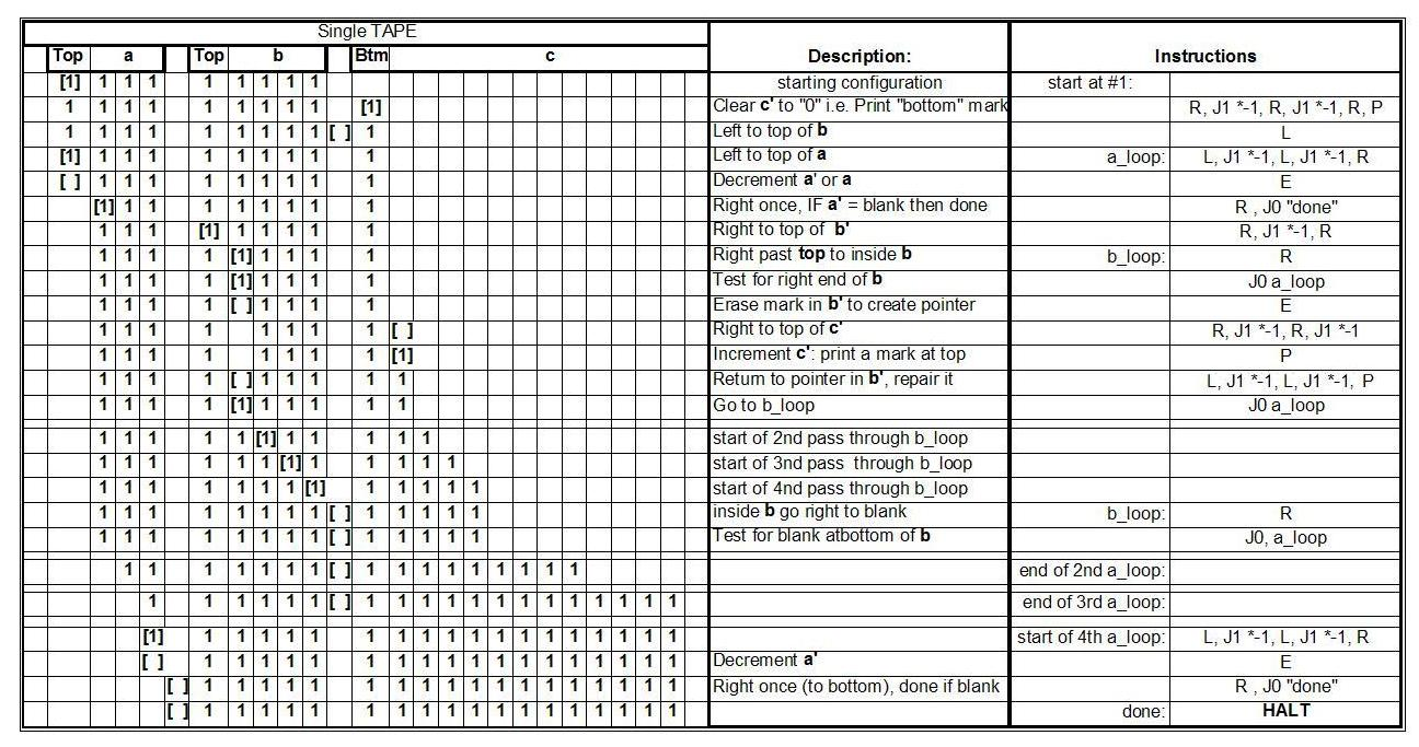 example run on Excel pasted into Autosketch